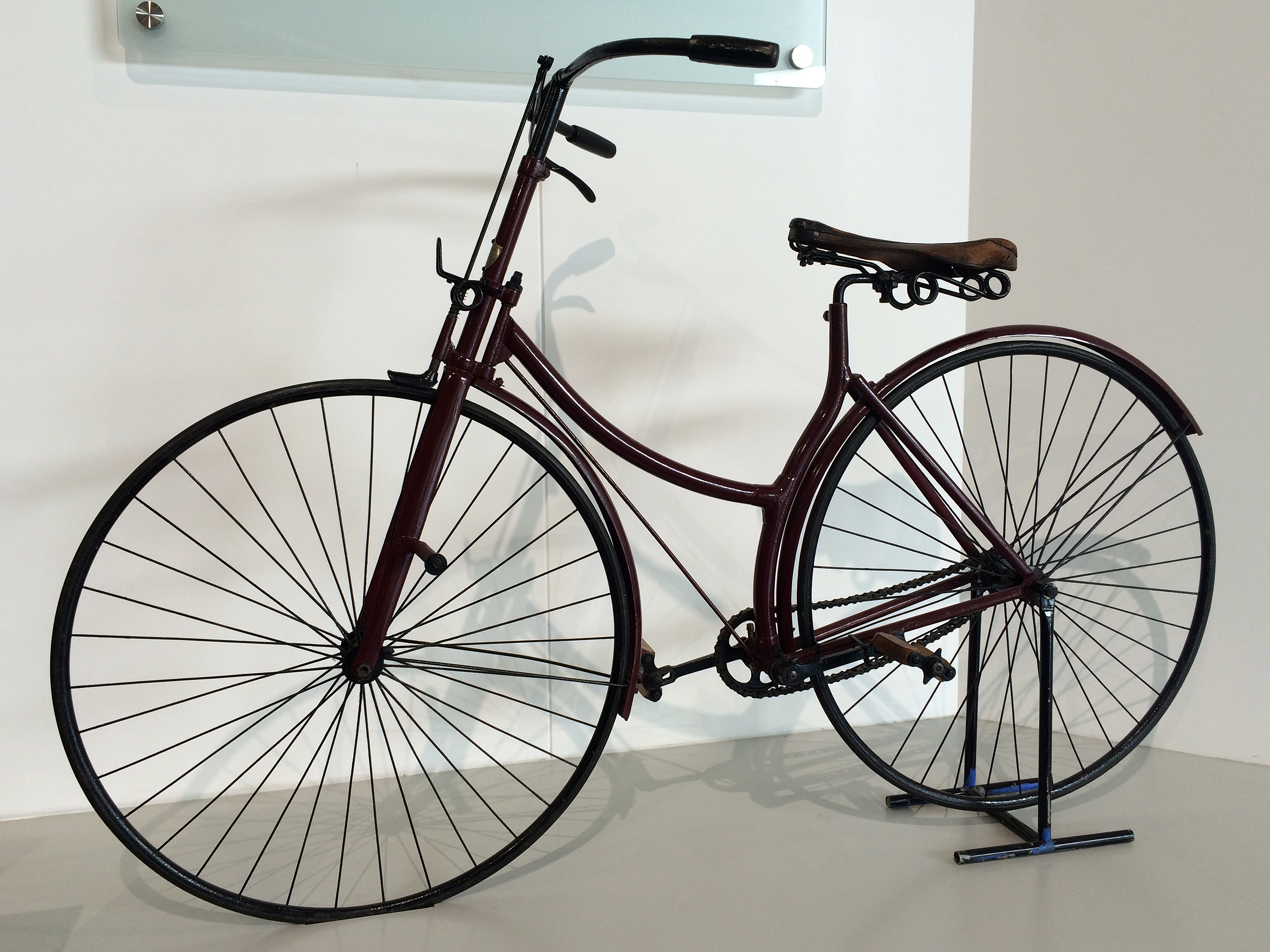 1886 Starley 'Rover' Safety Cycle British Motor Museum 09-2016